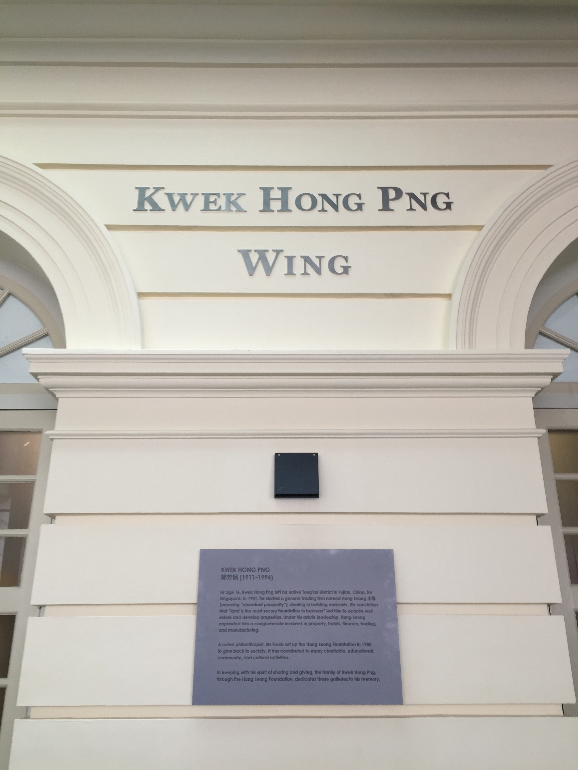 The Kwek Hong Png Wing of the Asian Civilisations Museum, Singapore, which opened after renovations in 2015.